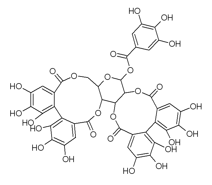 Chemical structure of casuarictin